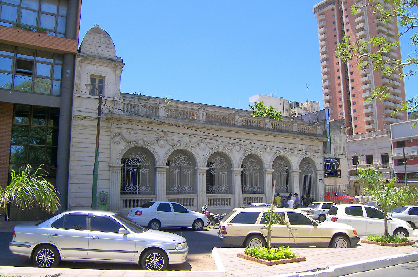 La casa Cueto de Asunción